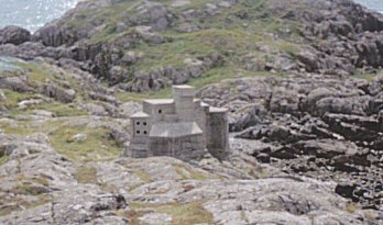 Hermit's Castle, Achmelvich, Highland